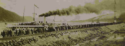 Inauguration trip by the Austro-Hungarian emperor Franz Joseph, the Romanian king Carol I, and the Serbian king Alexander Obrenovich